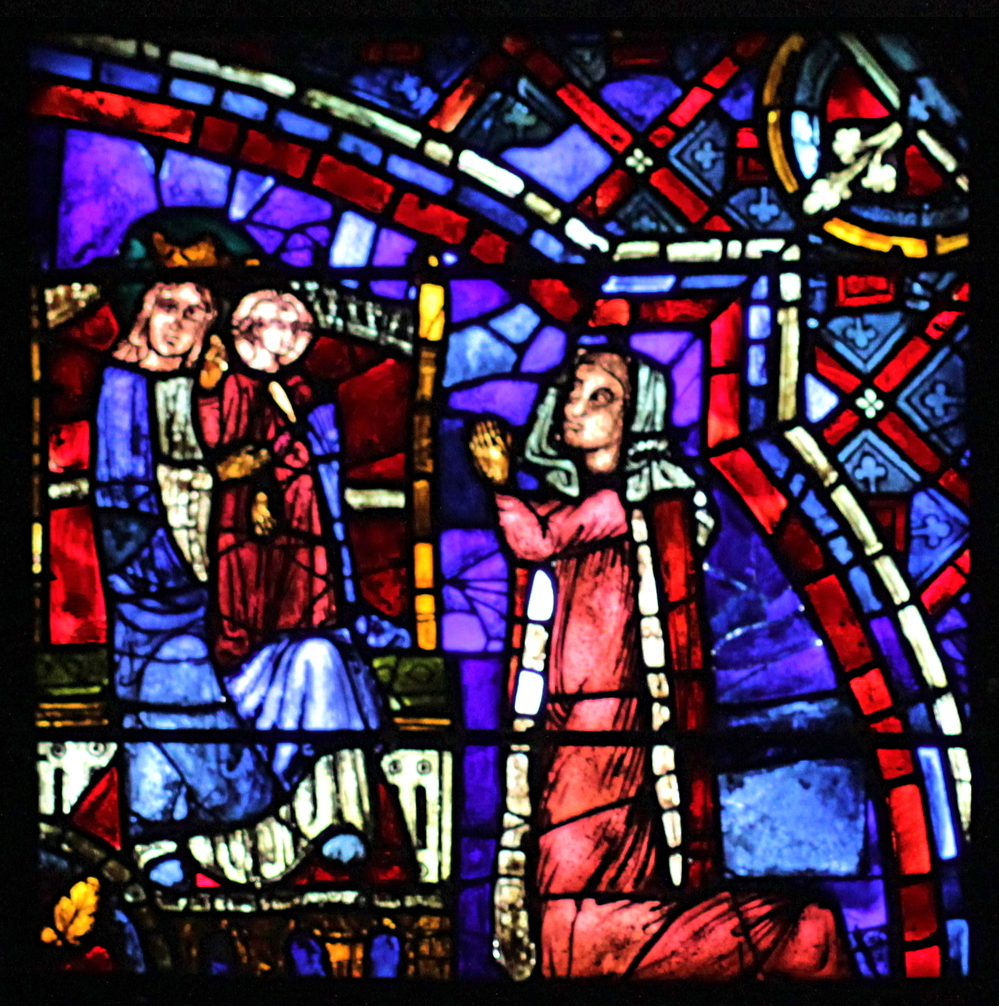 Stained window in Chartres cathedral - fragment. Margaret of Lèves praying before statue of the Virgin & Child